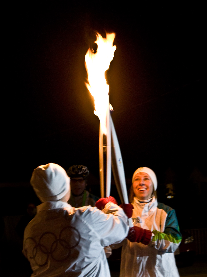 The Olympic Flame passes from one torch to another.